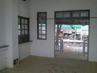 weoljeongri station inside